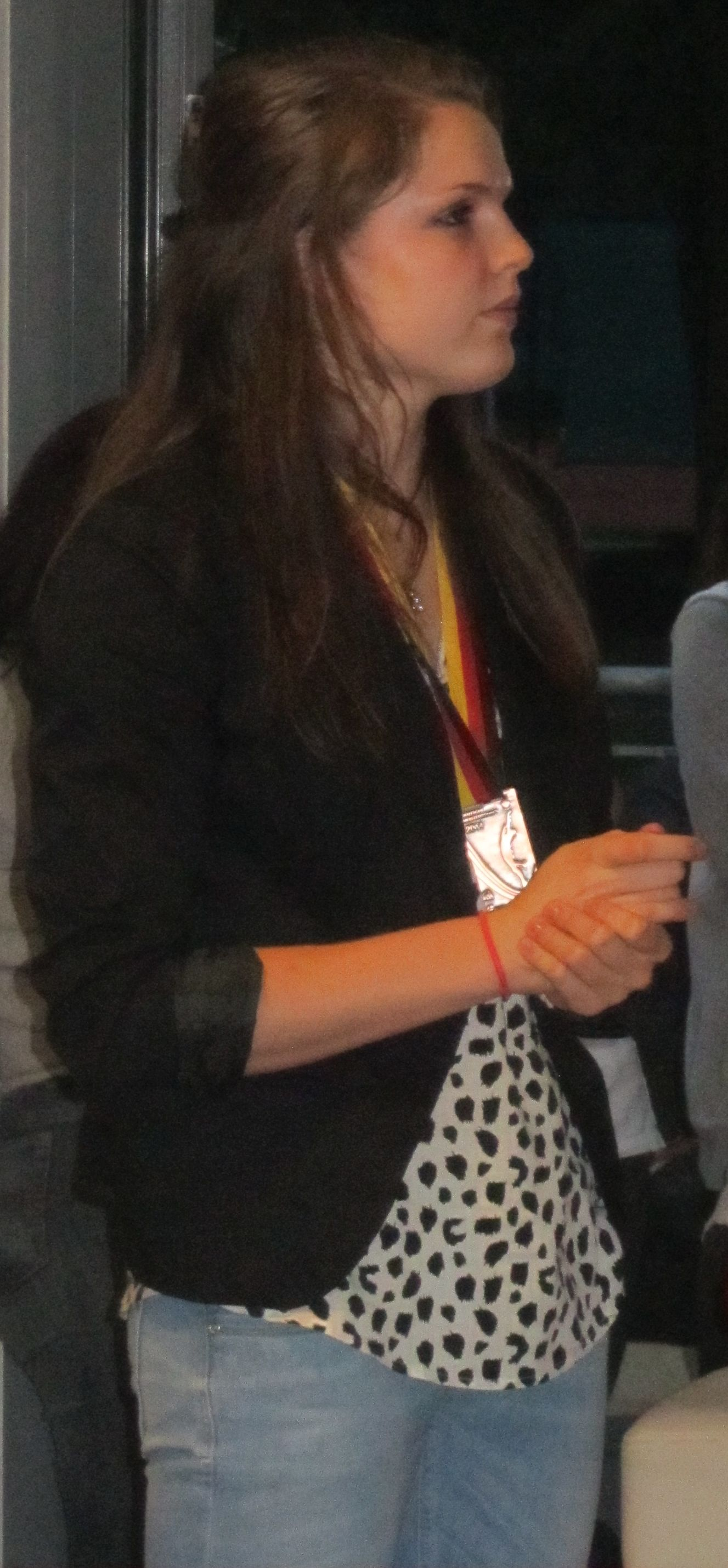 the Dutch volleyball player Yvon Beliën, winner of the Bronze medal in German Bundesliga 2014 with Ladies in Black Aachen